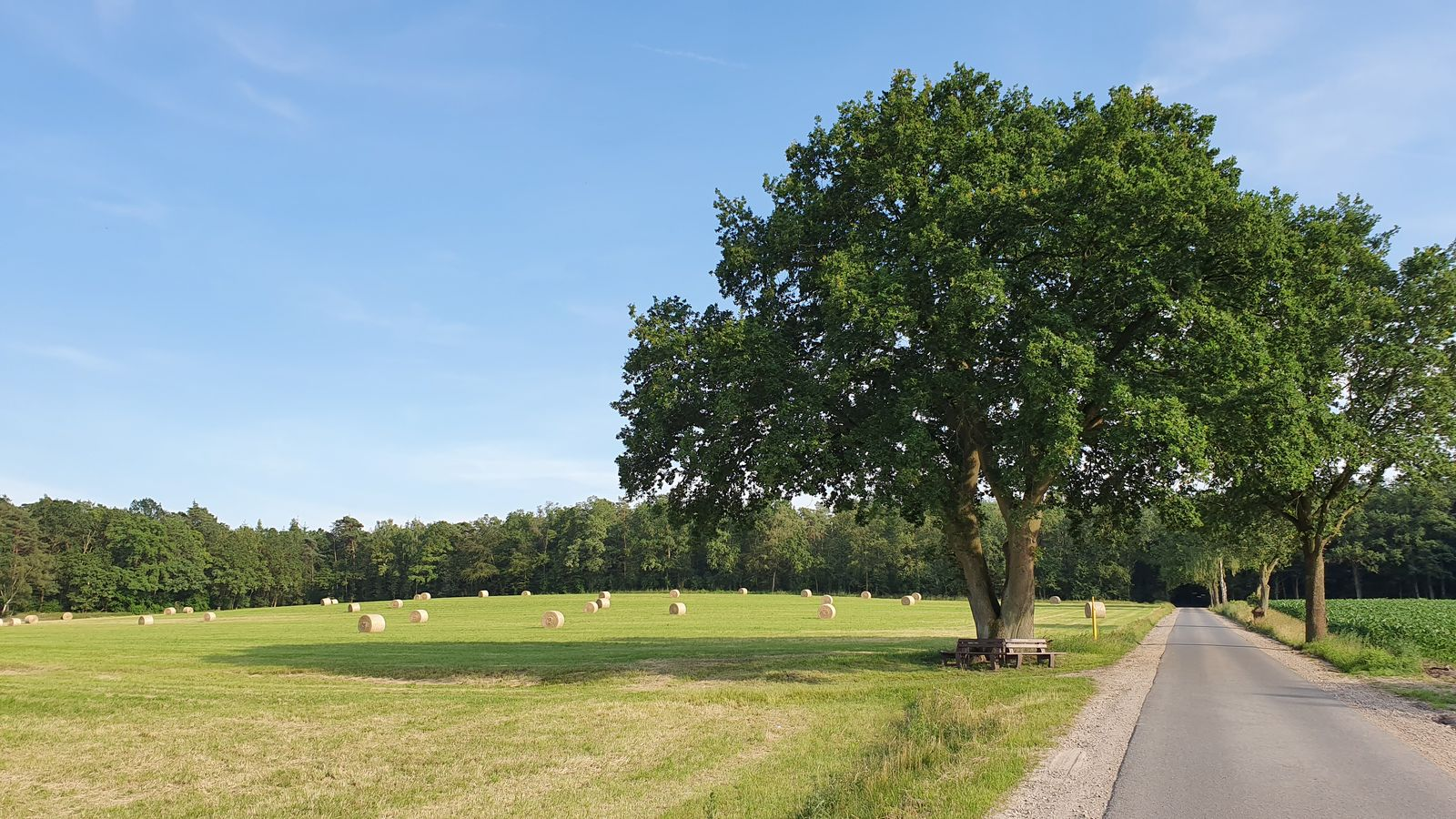 Otterberg